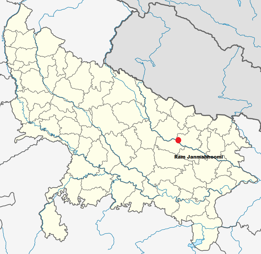 This is a modified version of an Uttar Pradesh map, showing the location of the Babri Masjid/Ram Janmabhoomi.